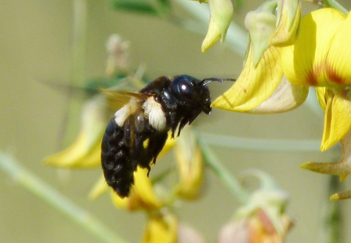 A female of the carpenter bee Xylocopa inconstans beside the H1-1 near Mathekenyane, Kruger NP, SOUTH AFRICA